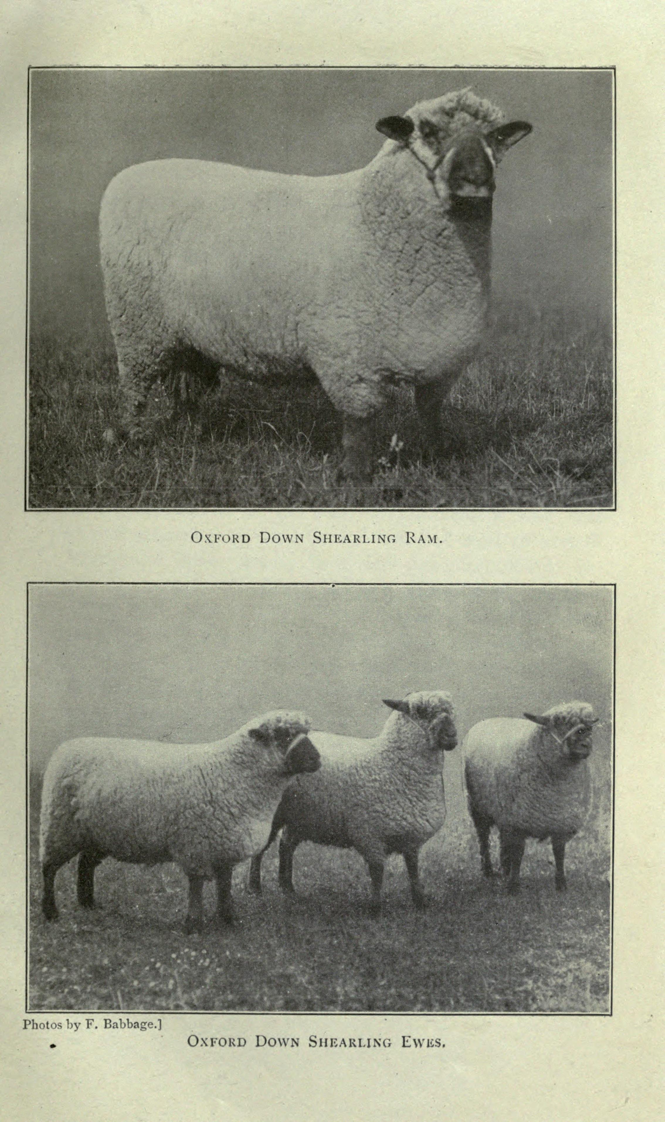 Sheep. Breeds and management, by John Wrightson ...